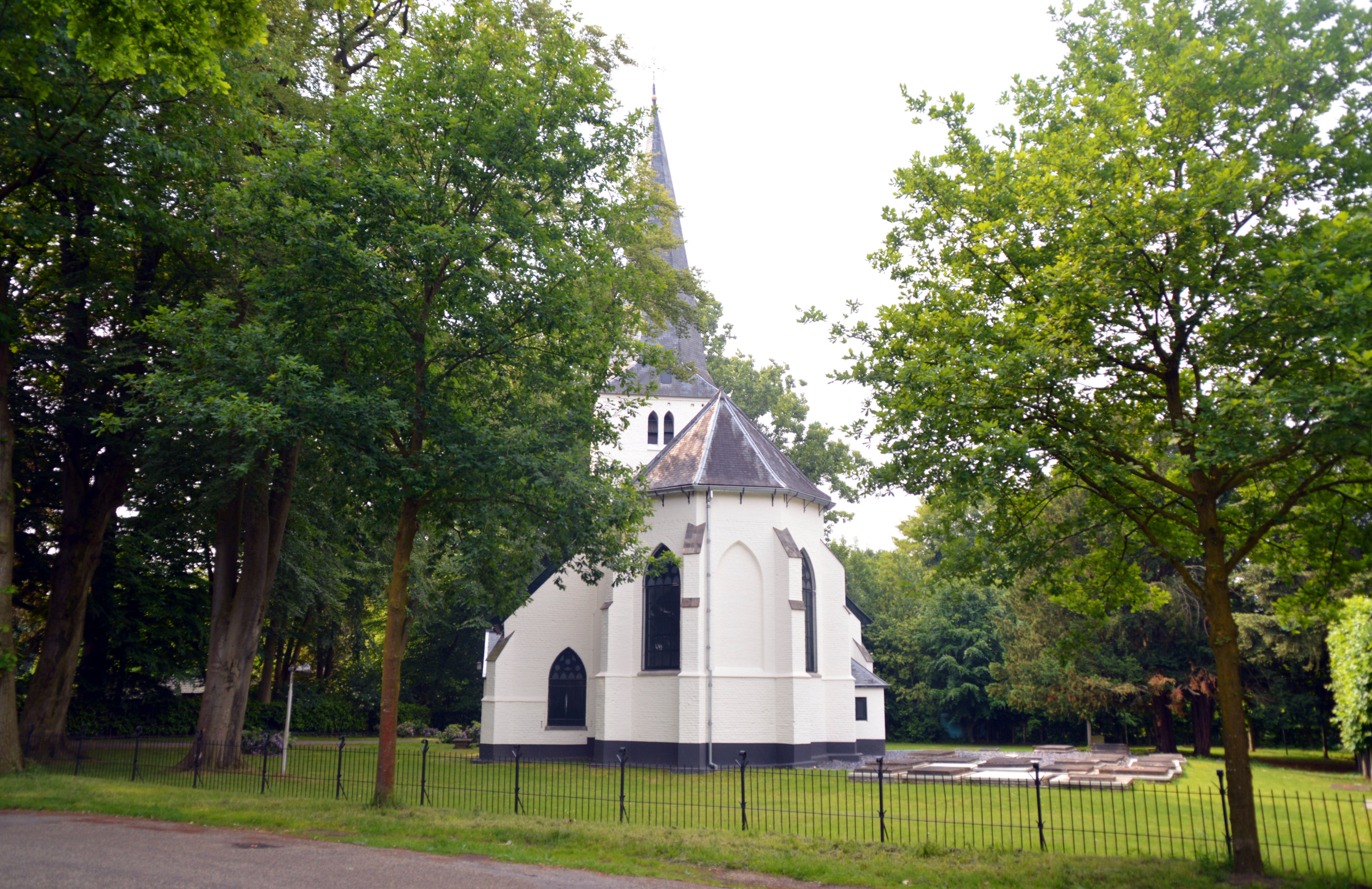 Dutch Reformed Church Neerbosch Little White Church Neerbosch Nijmegen